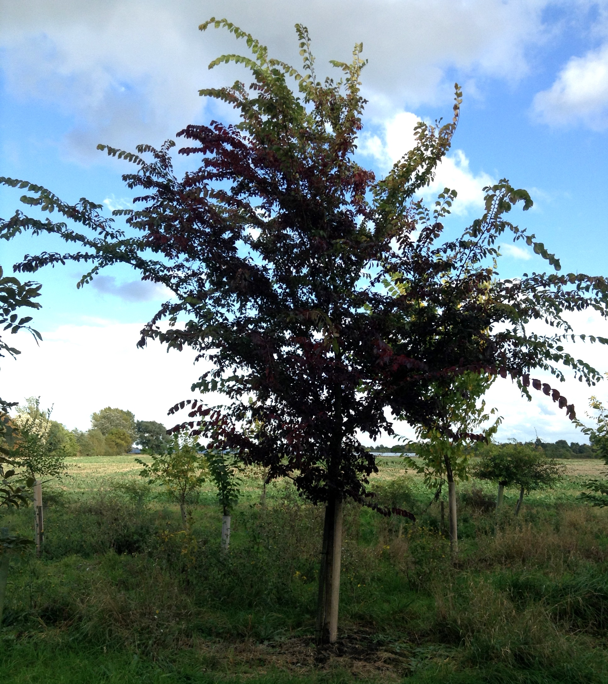 Photo of Ulmus 'Frontier' taken at Grange Farm Arboretum, Lincolnshire, England